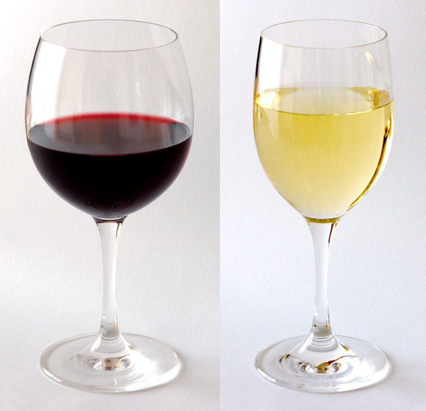 red and white wine in glassTürkçe: Kadehte kırmızı ve beyaz şarap